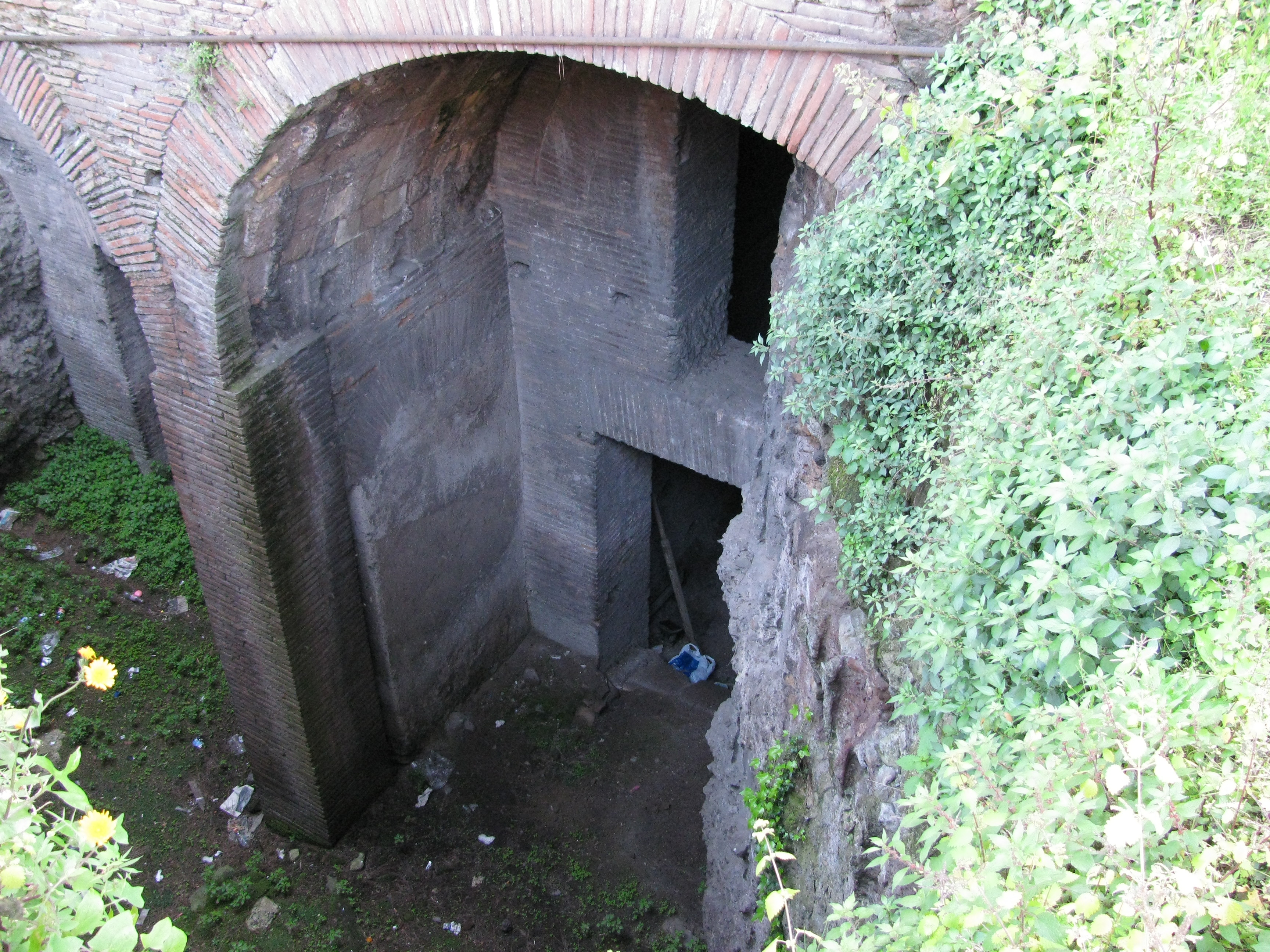 Insula dating IIth century DC, West slope of Capitole hill, groud floor